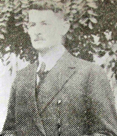 Svetolik Dragacevac